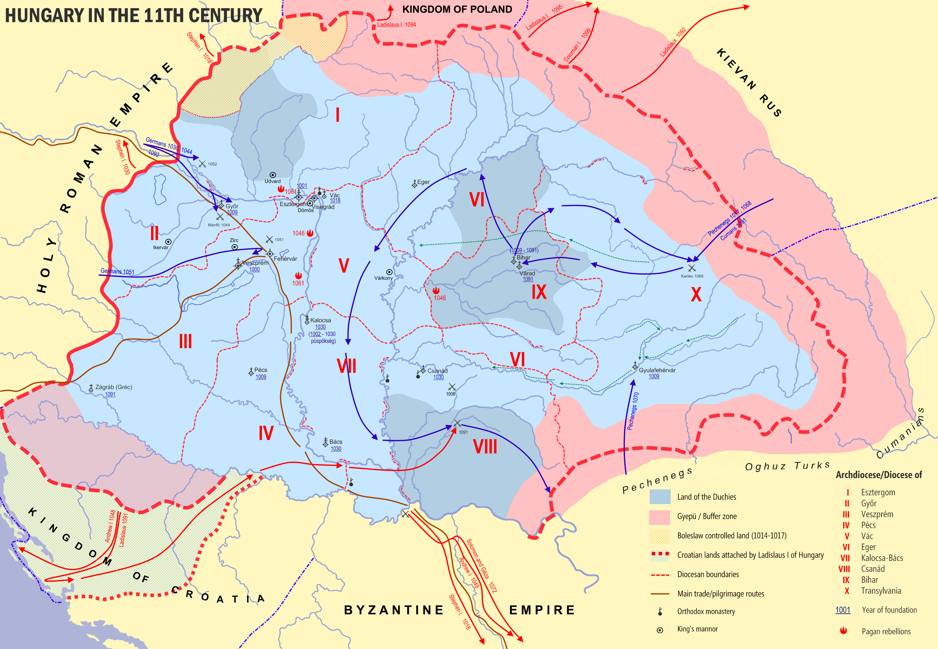 Hungary in the last decade of the 11th century